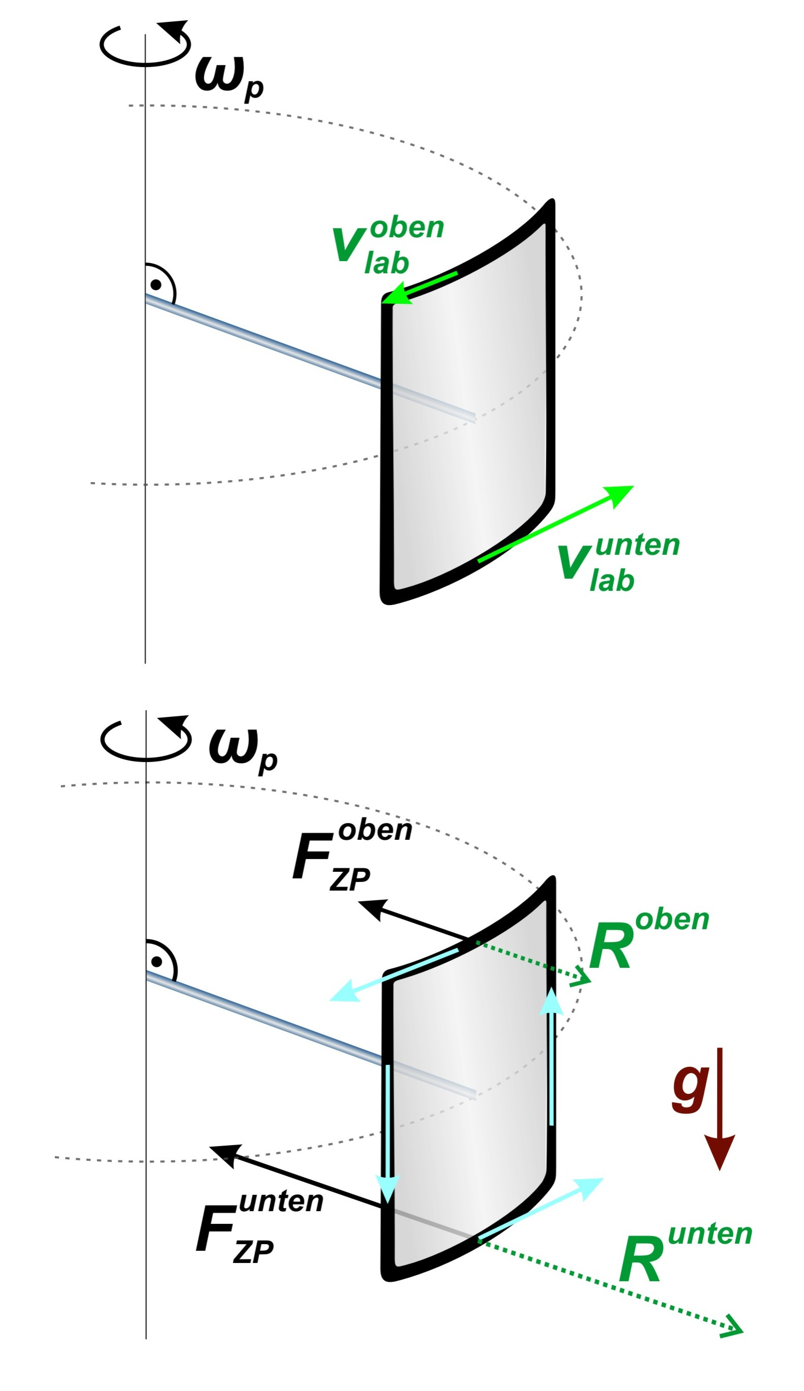 Square wheel model forces lab frame